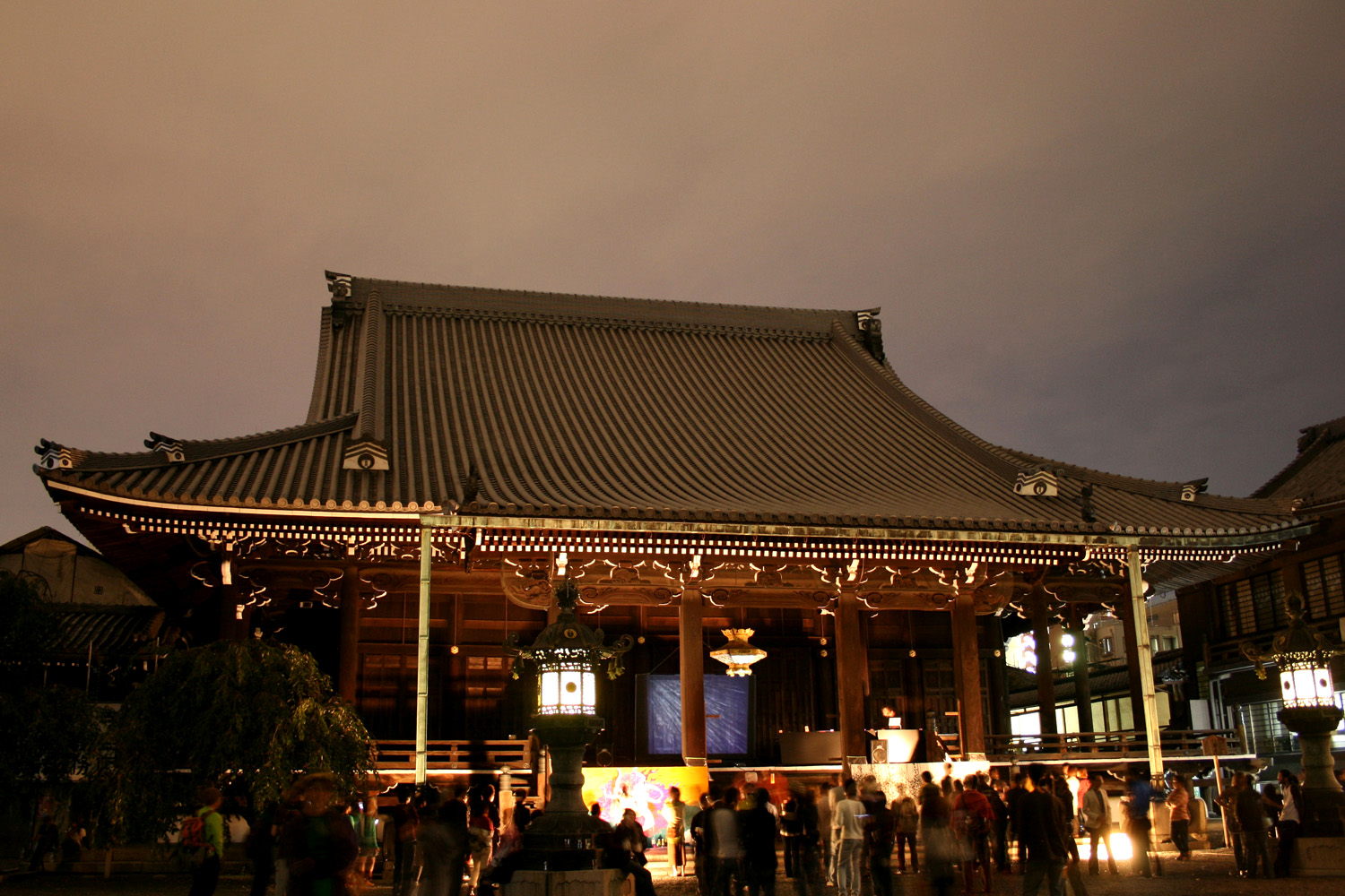 Rave-up at Bukko-ji Temple